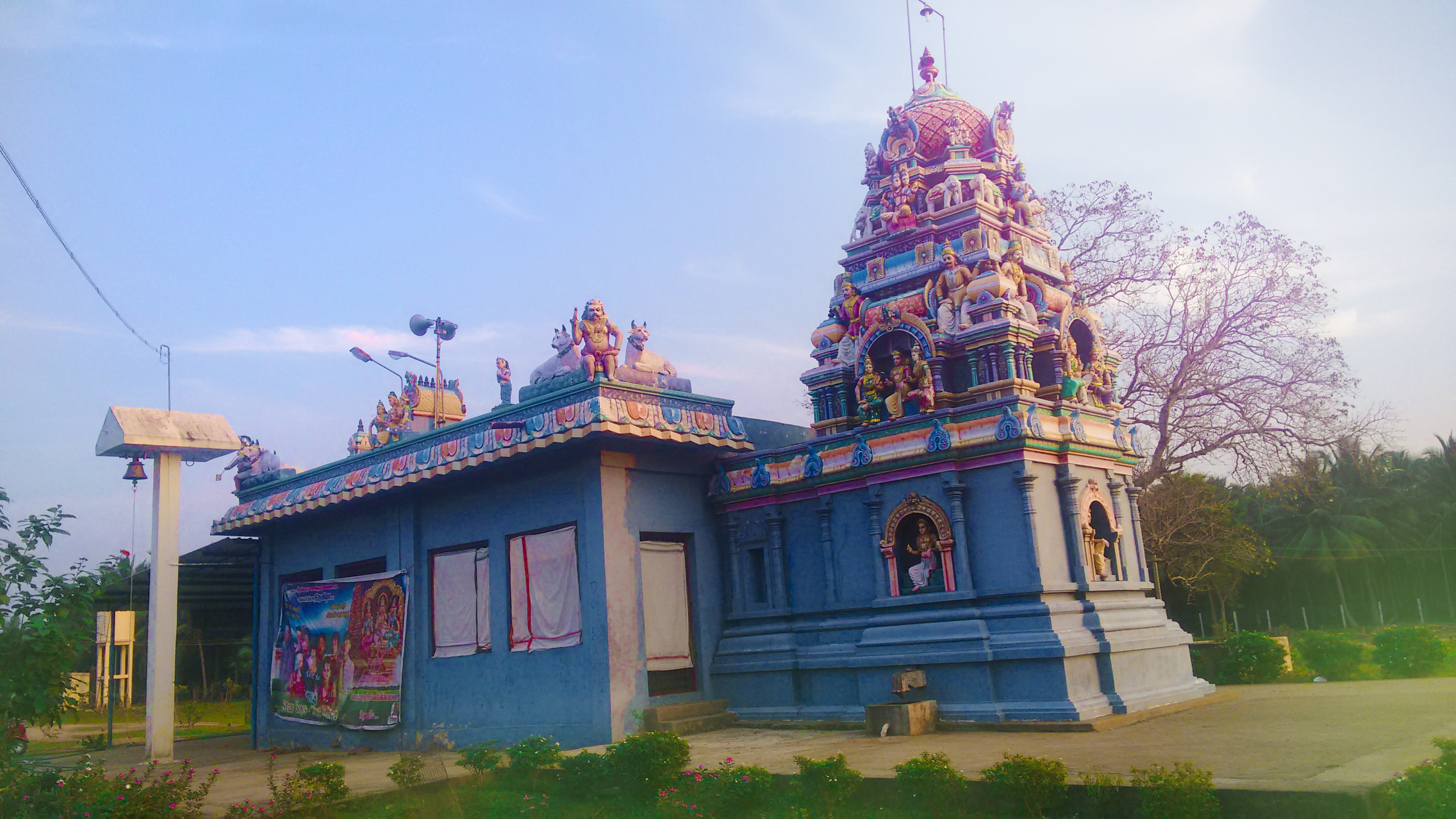 Ayyannar kovil side view